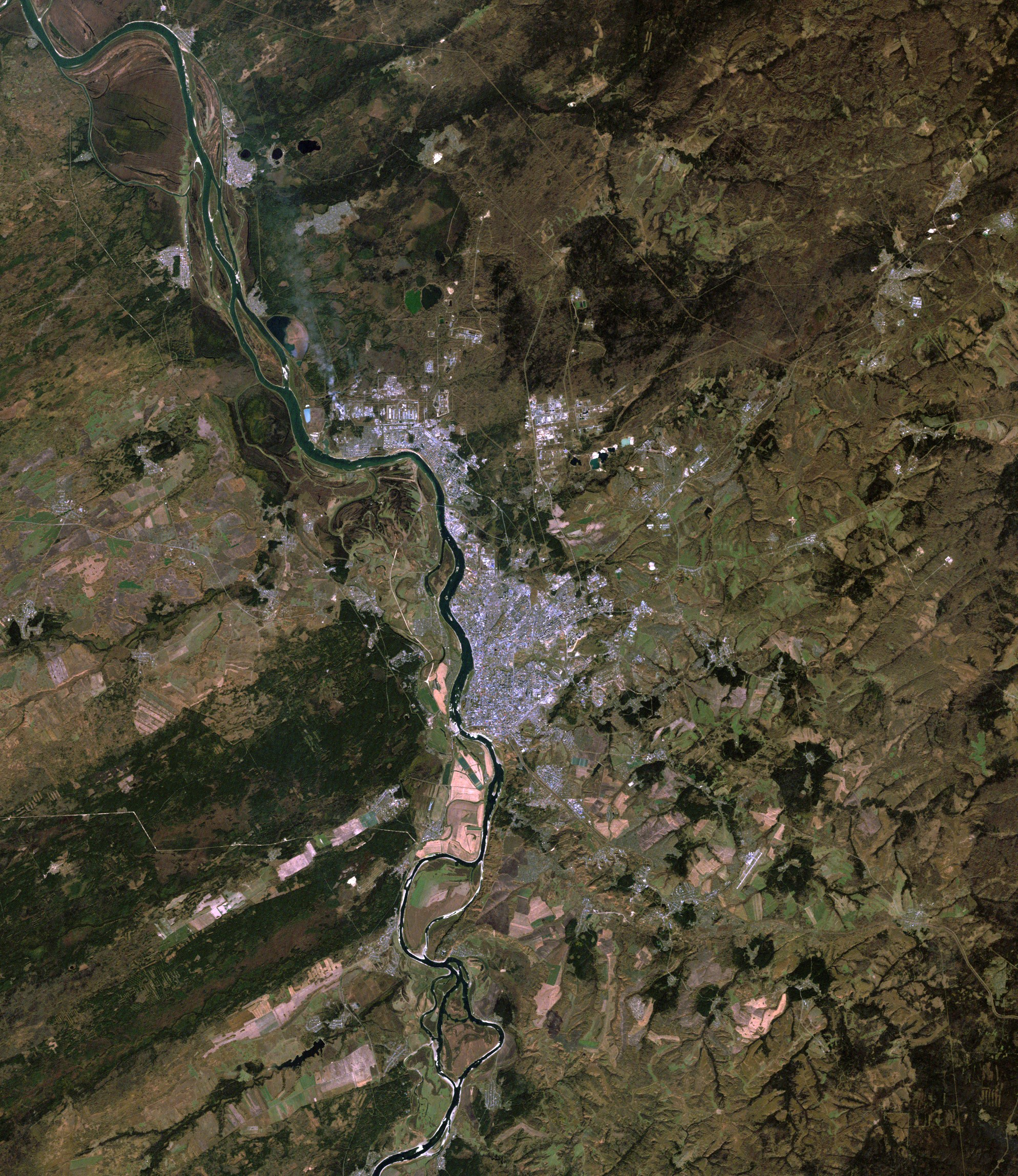 Tomsk city and vicinities, Russia, LandSat-5 near natural colors satellite image, 2011-09-27, spatial resolution 30 m